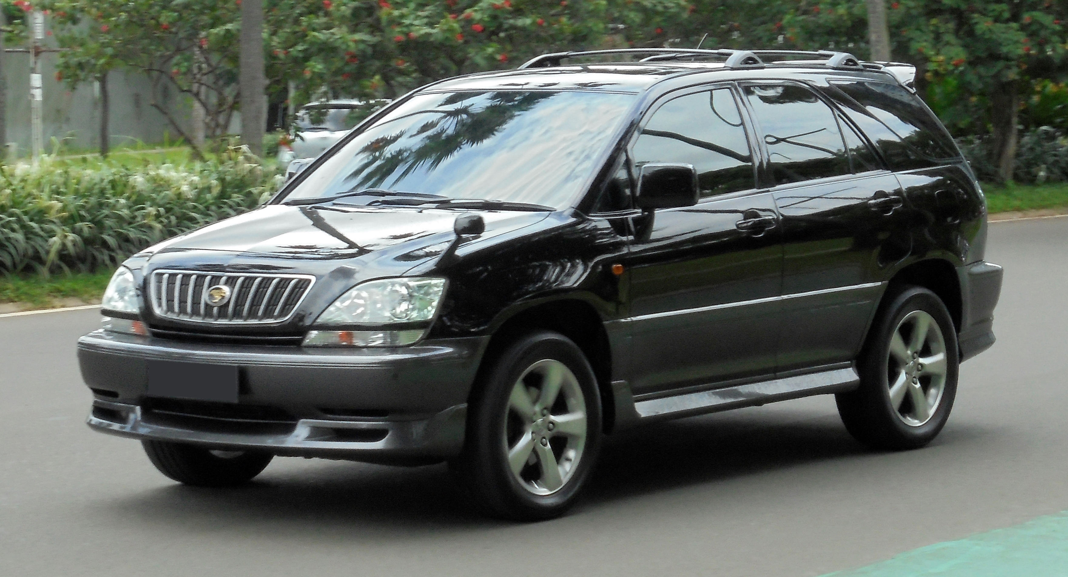 2002 Toyota Harrier 3.0 FOUR (TA-MCU15W)